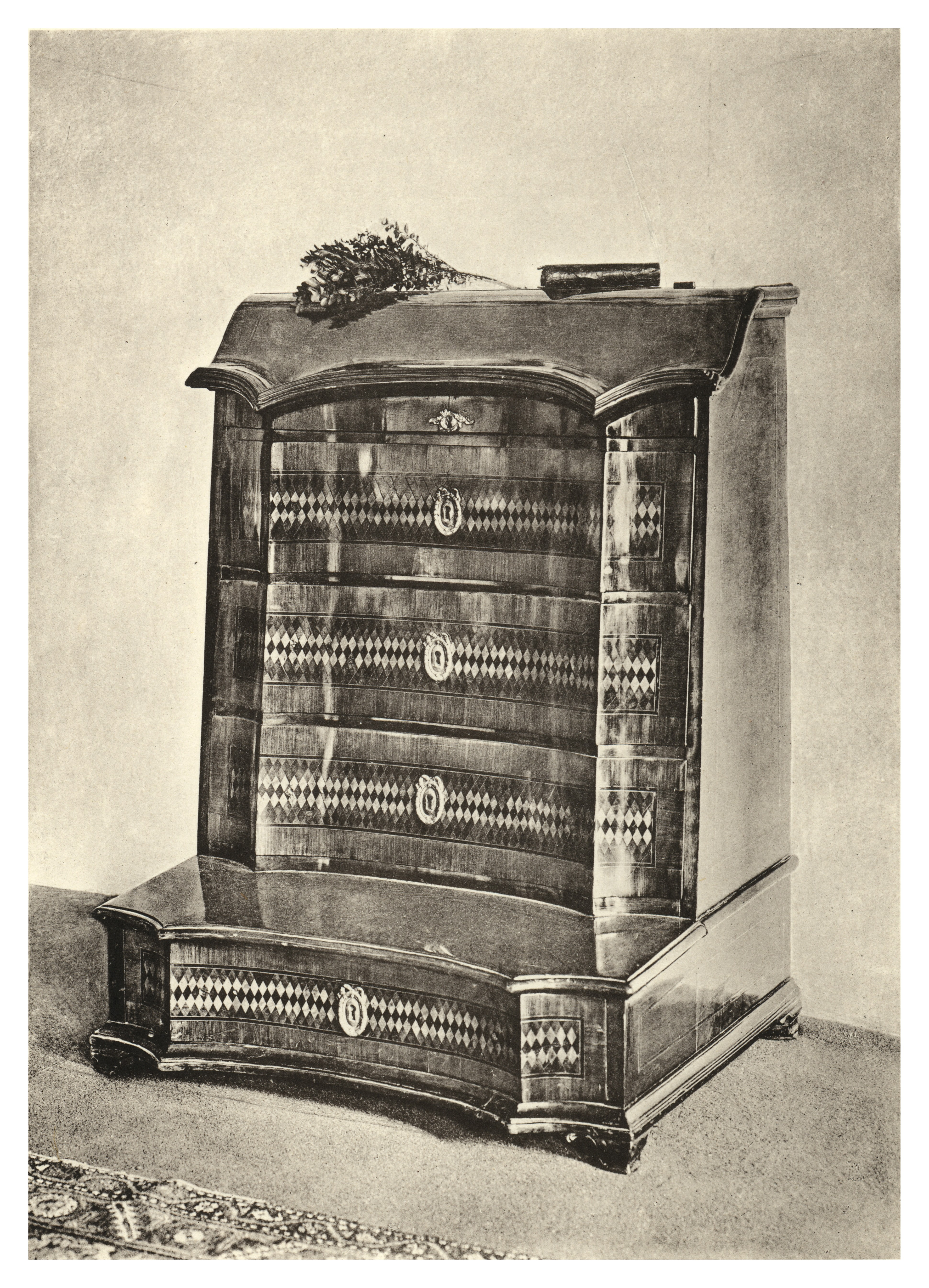 Prie-dieu bench